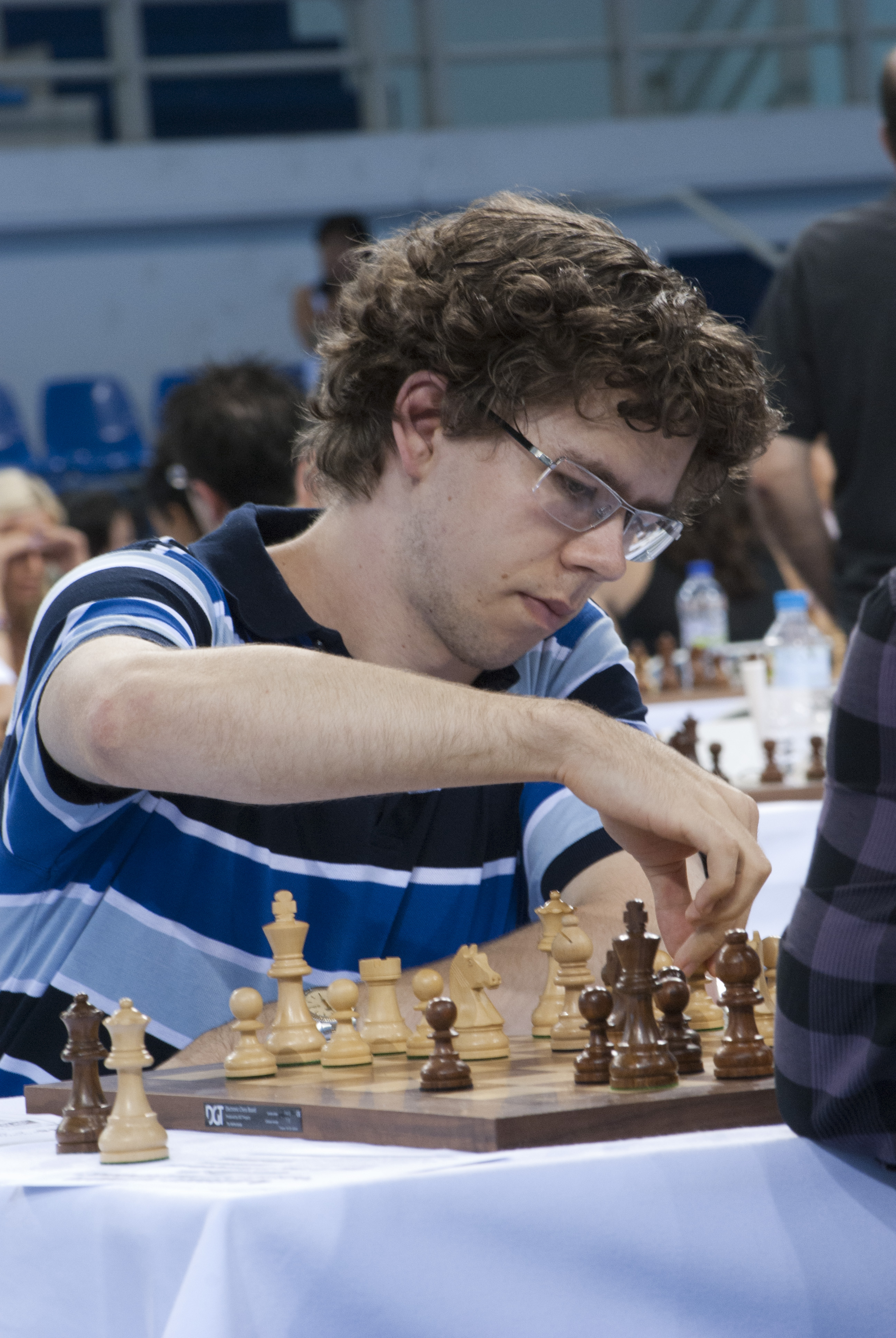 HAMMER JON LUDVIG playing his move